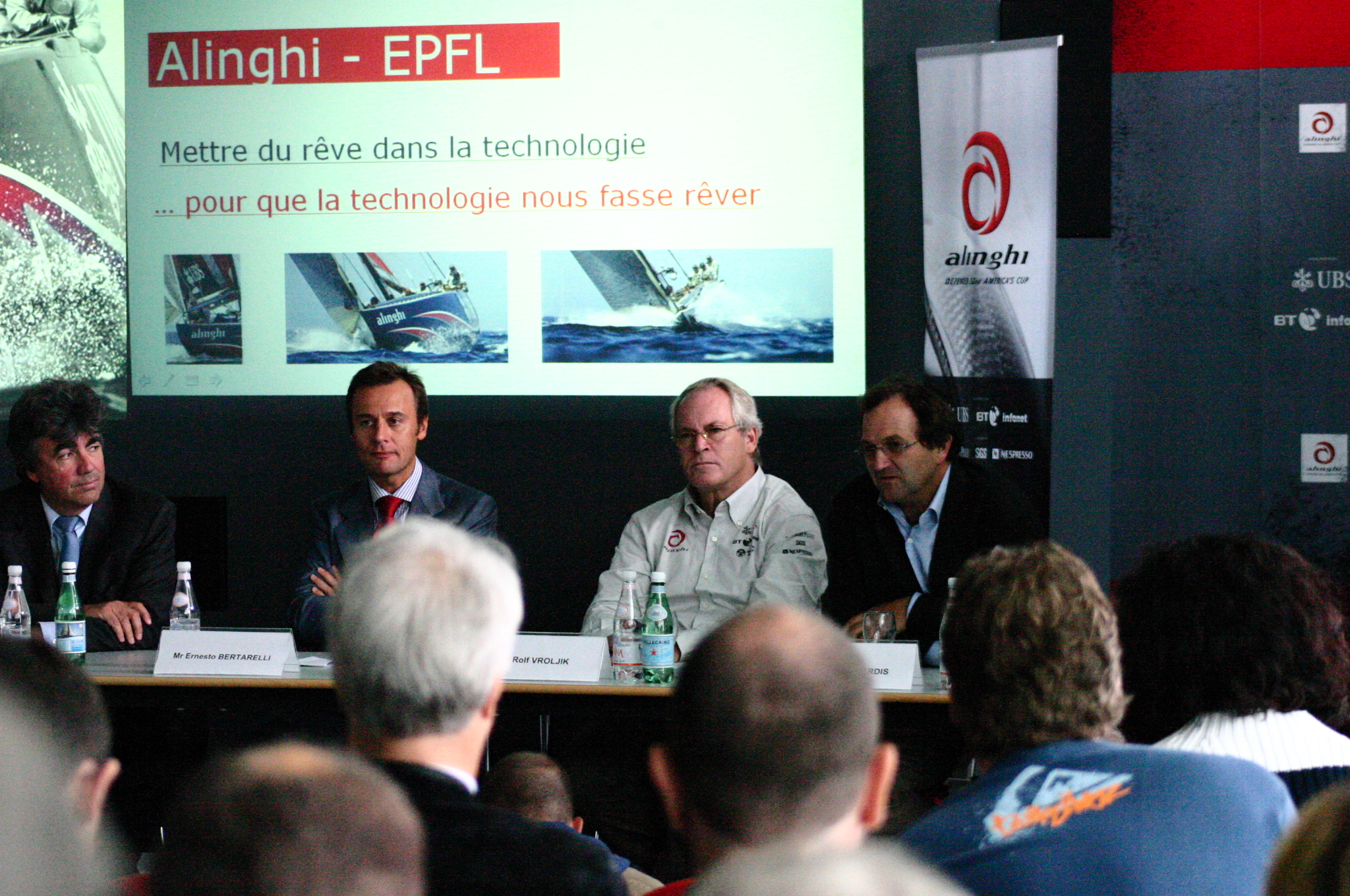 Alinghi on display at the EPFL, 30th of August 2006